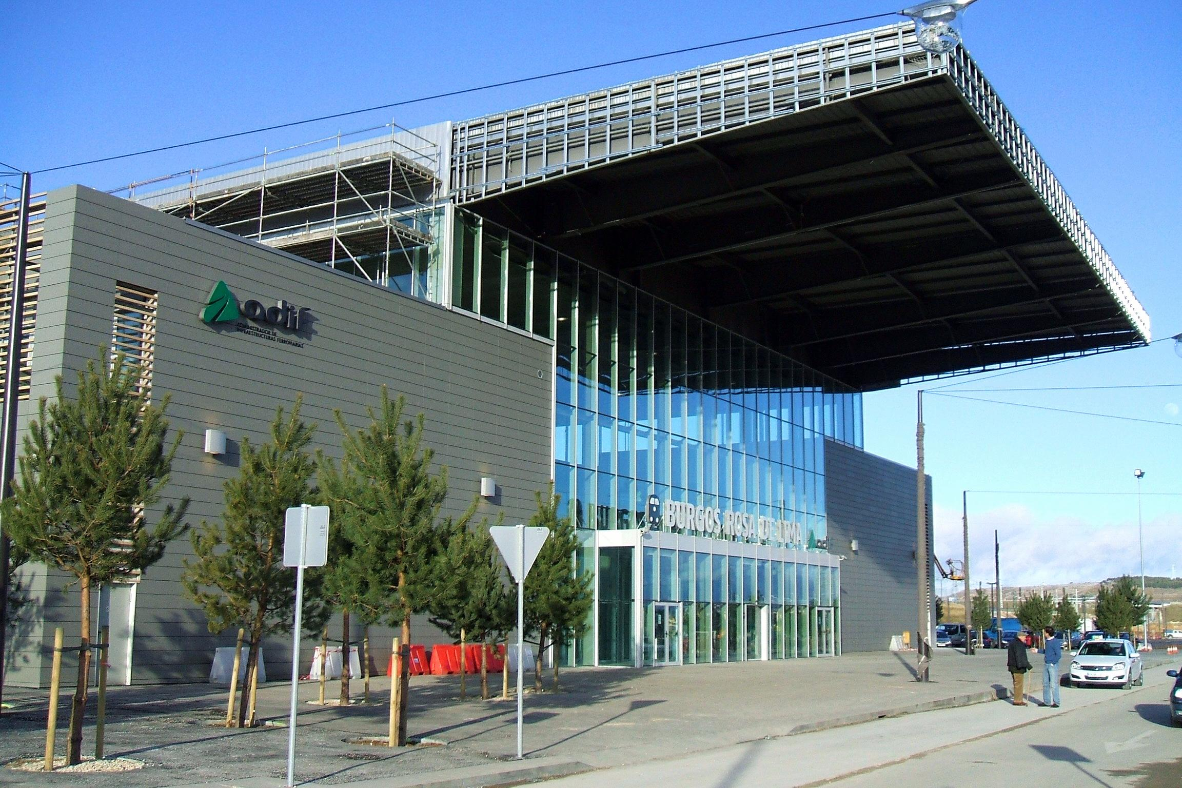 Estación para trenes de alta velocidad (AVE) de Burgos-Rosa de Lima (Burgos, Castile and León, Spain).